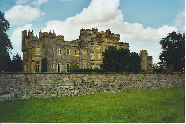 Photograph of the "new" Hawarden Castle